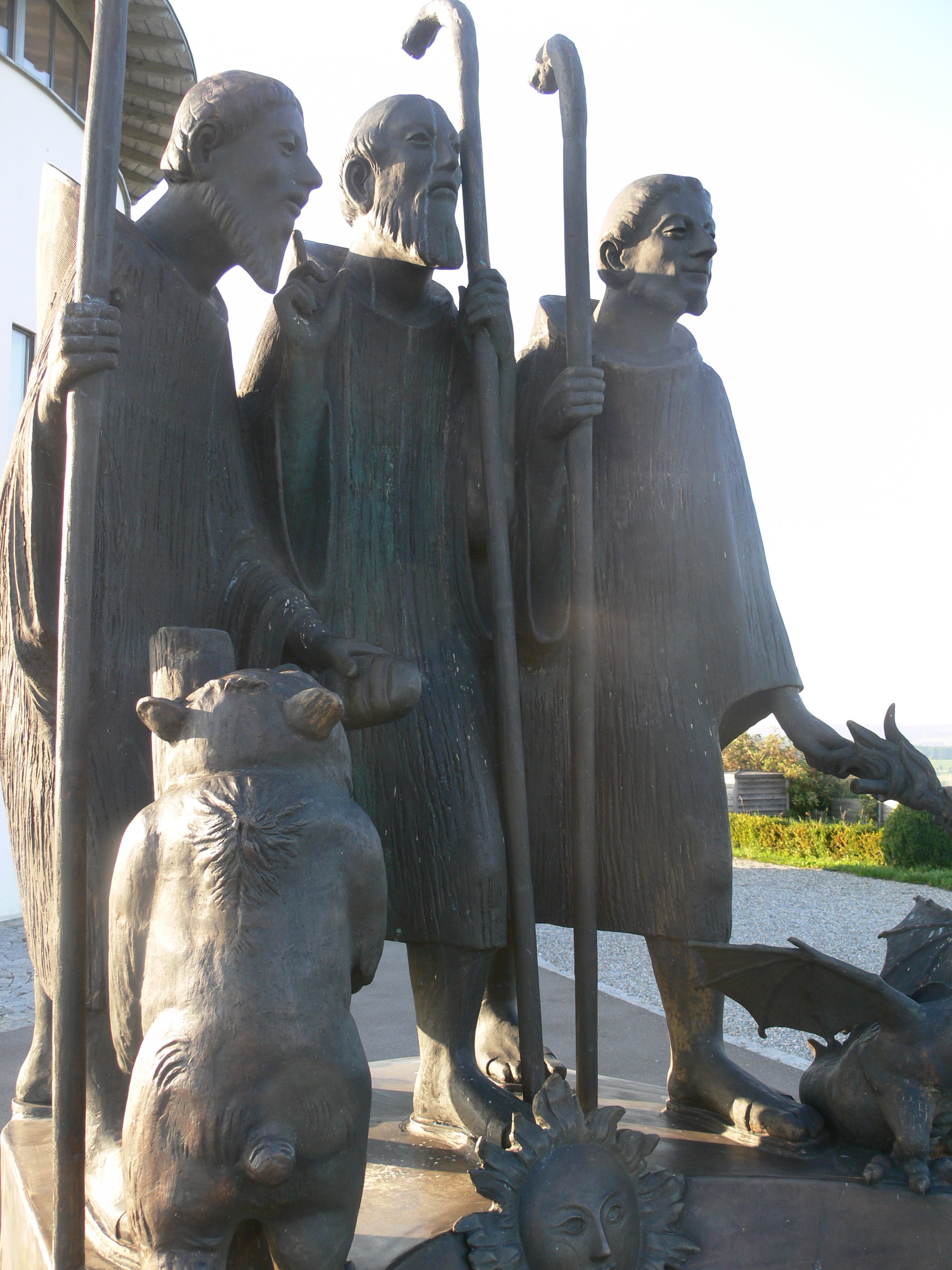 Bonifatius Stirnberg: “Allgäuheilige” (Gallus, Magnus, Kolumban), 2000Sculptures along the highway Chapel St. Gallus (Leutkirch)